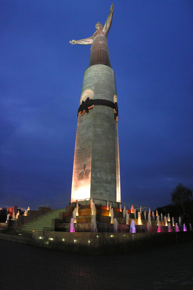 Cheboksary, Russia - The monument in downtown.